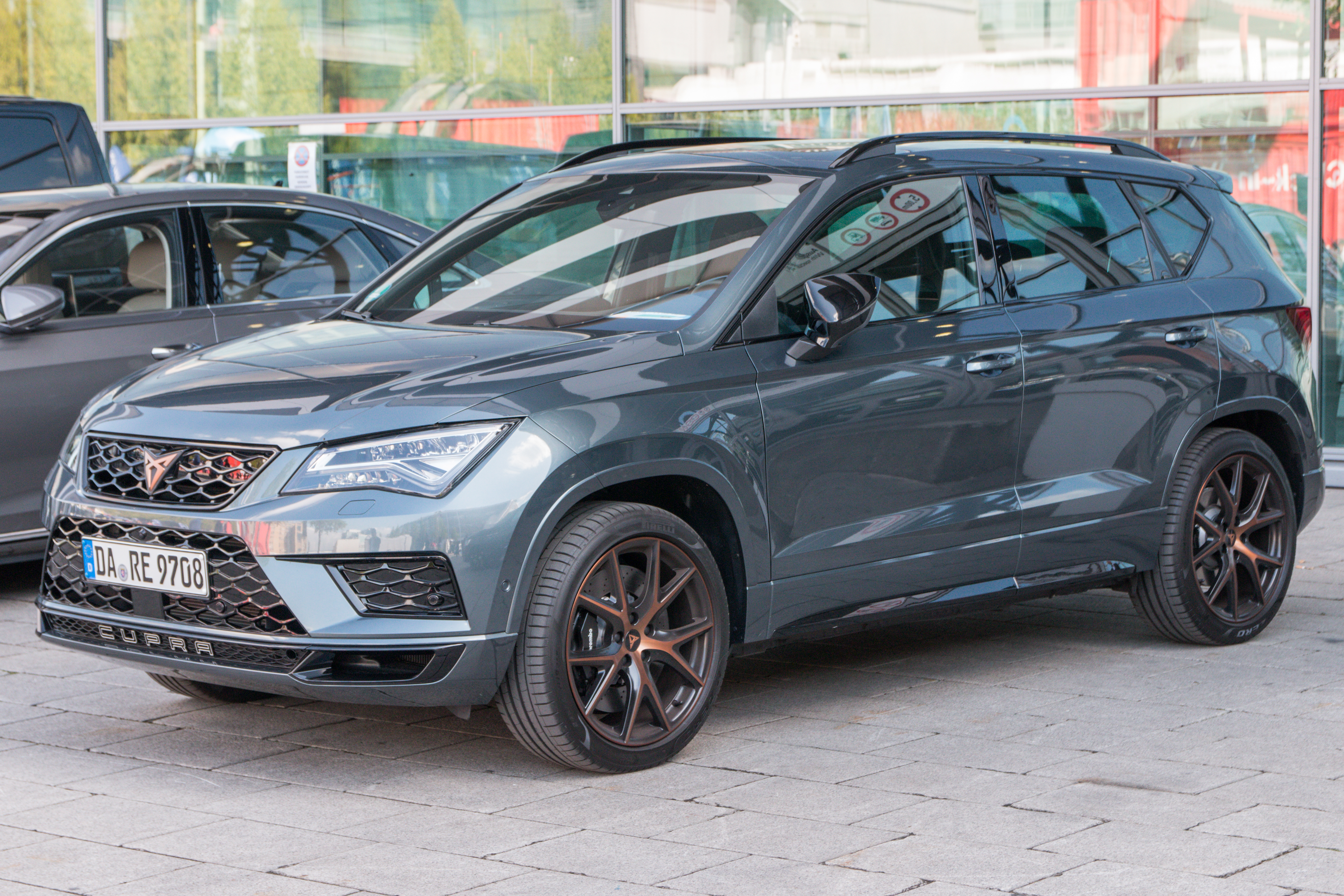 Cupra Ateca